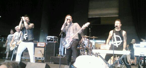 Lostprophets performing at the 2012 Vans Warped Tour in Mansfield, MA.